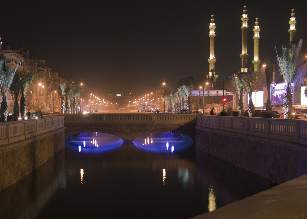 Downtown Aleppo, Queik river at night. Syrian Republic